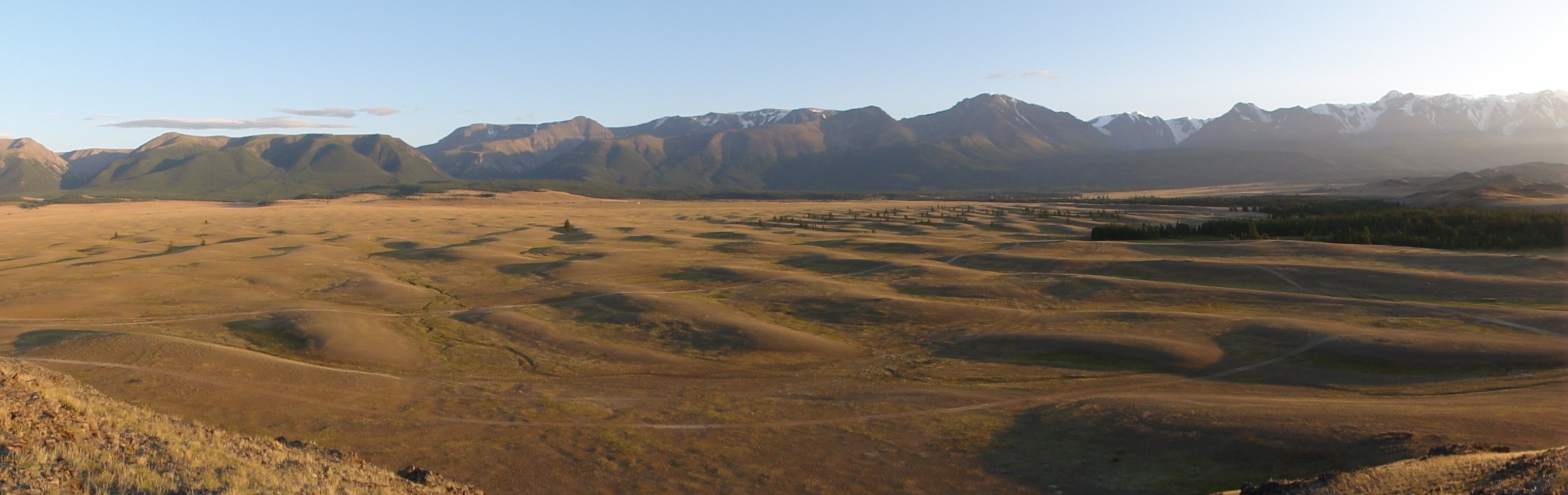 Gravel mega-ripples in the Chuya Basin seen at sunset, looking south. Related to the Altay flood